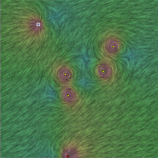 Line integral convolution (LIC) visualization of a vector field defined by a number of vortices and sinks. Color hue denotes velocity. Generated using Jarke J. van Wijk's image based flow tool